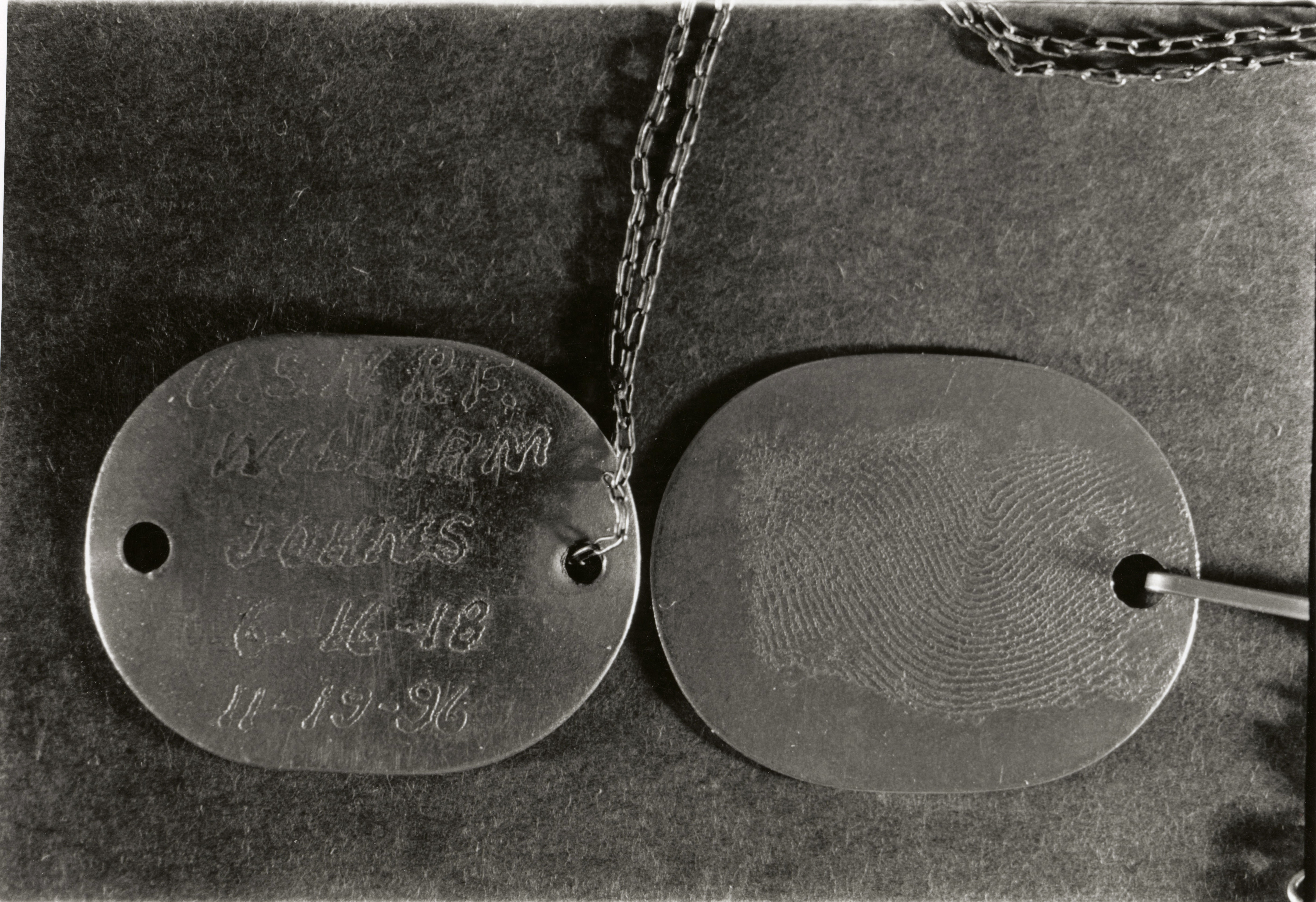 World War 1 Navy identification (dog) tags. An individual's pertinent information was inscribed on the front using an acid solution. The thumb print, was made on the reverse using the same acid, which left a painful